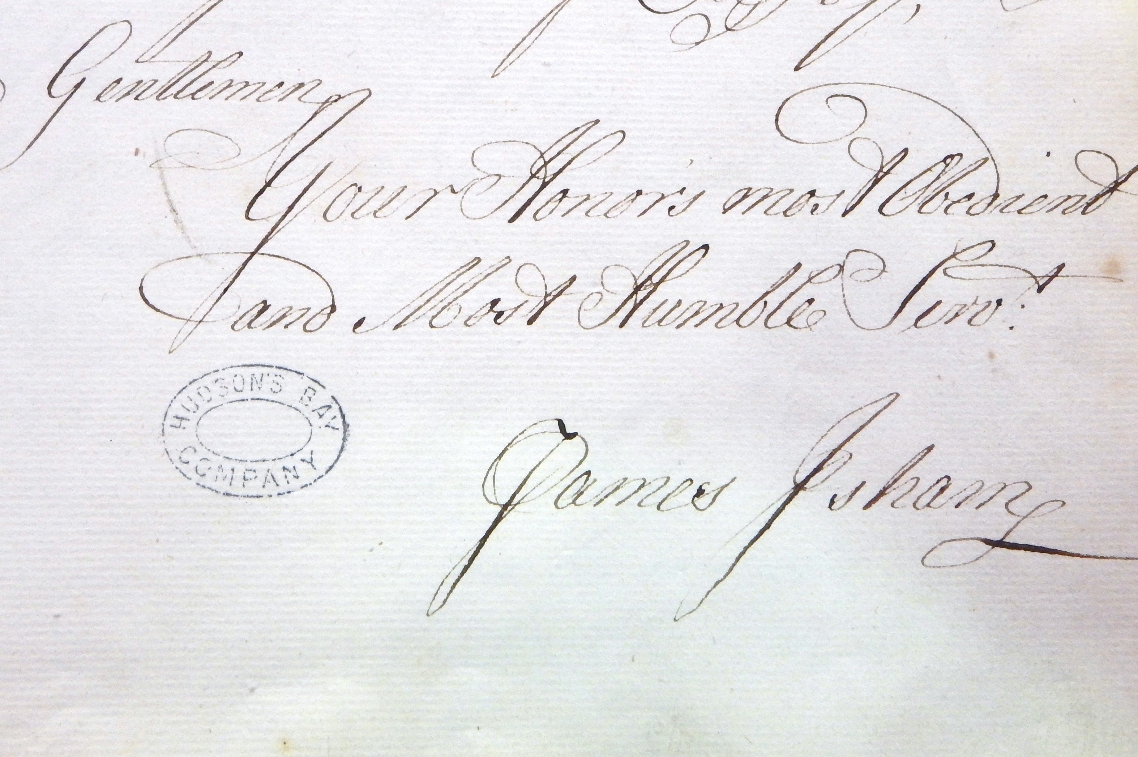 James Isham, chief factor at York Factory, signed the post journal each year and sent it to the HBC committee in London. Photo